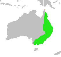 A map of the distribution of the Pied Currawong